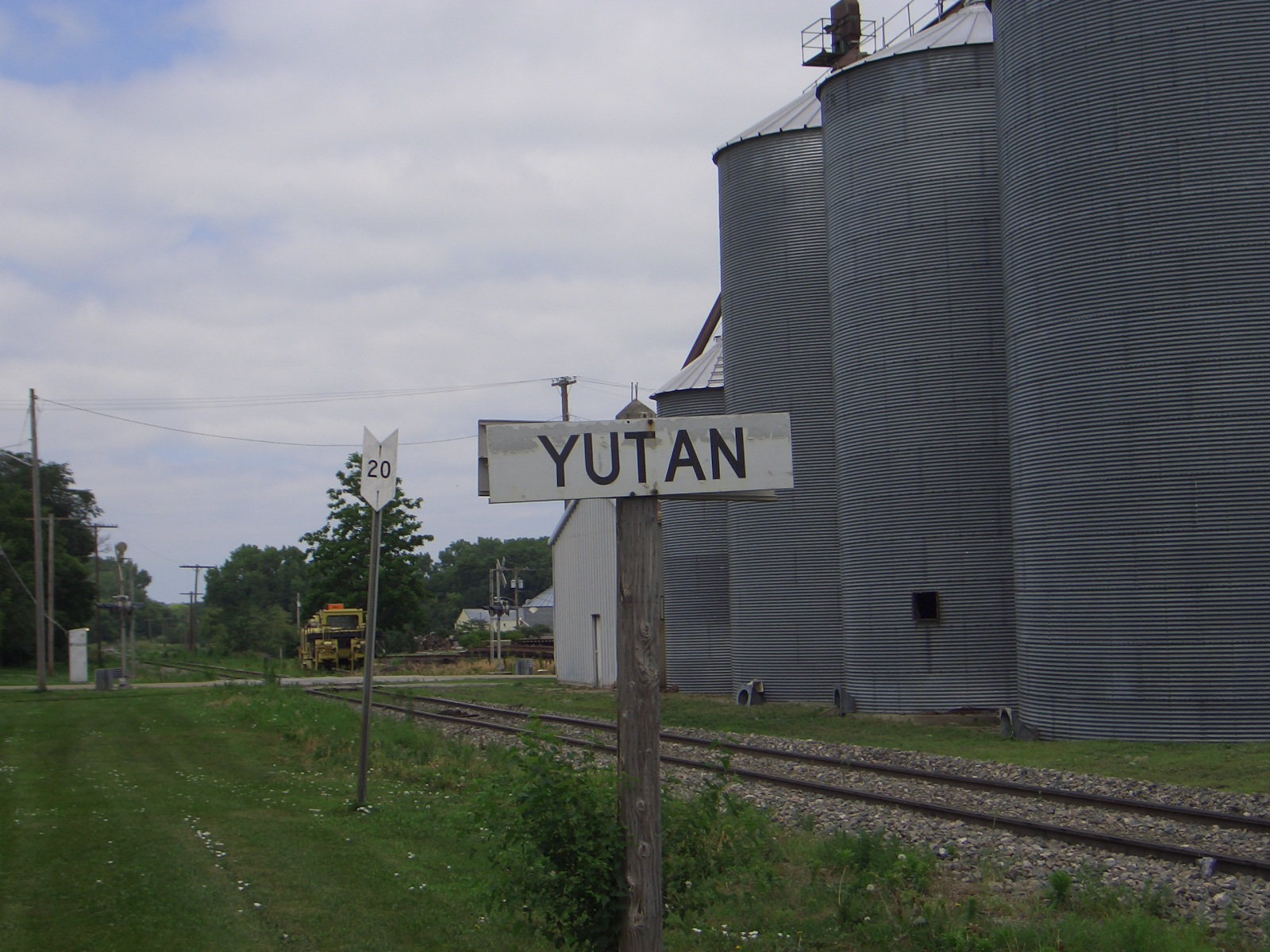 Yutan, Nebraska Yutan sign by the railroad.